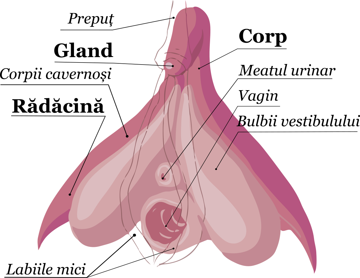 Anatomy of clitoris in Romanian